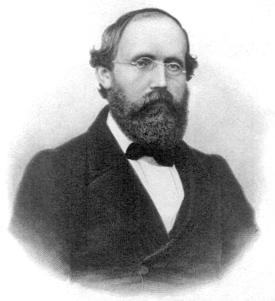 An Image of Georg Friedrich Bernhard Riemann taken in 1863